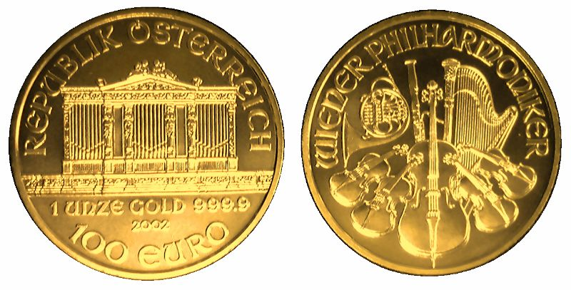 Photograph of Wiener Philharmoniker coin.